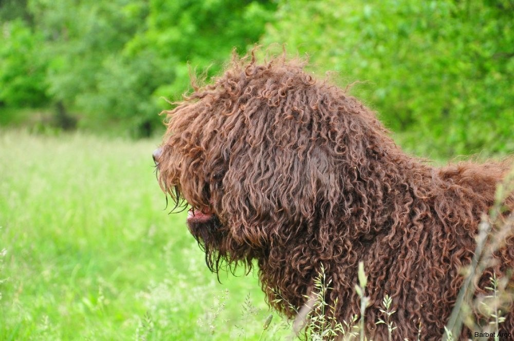 Example of Barbet's head , on the photo Argo z Górki Podduchownej